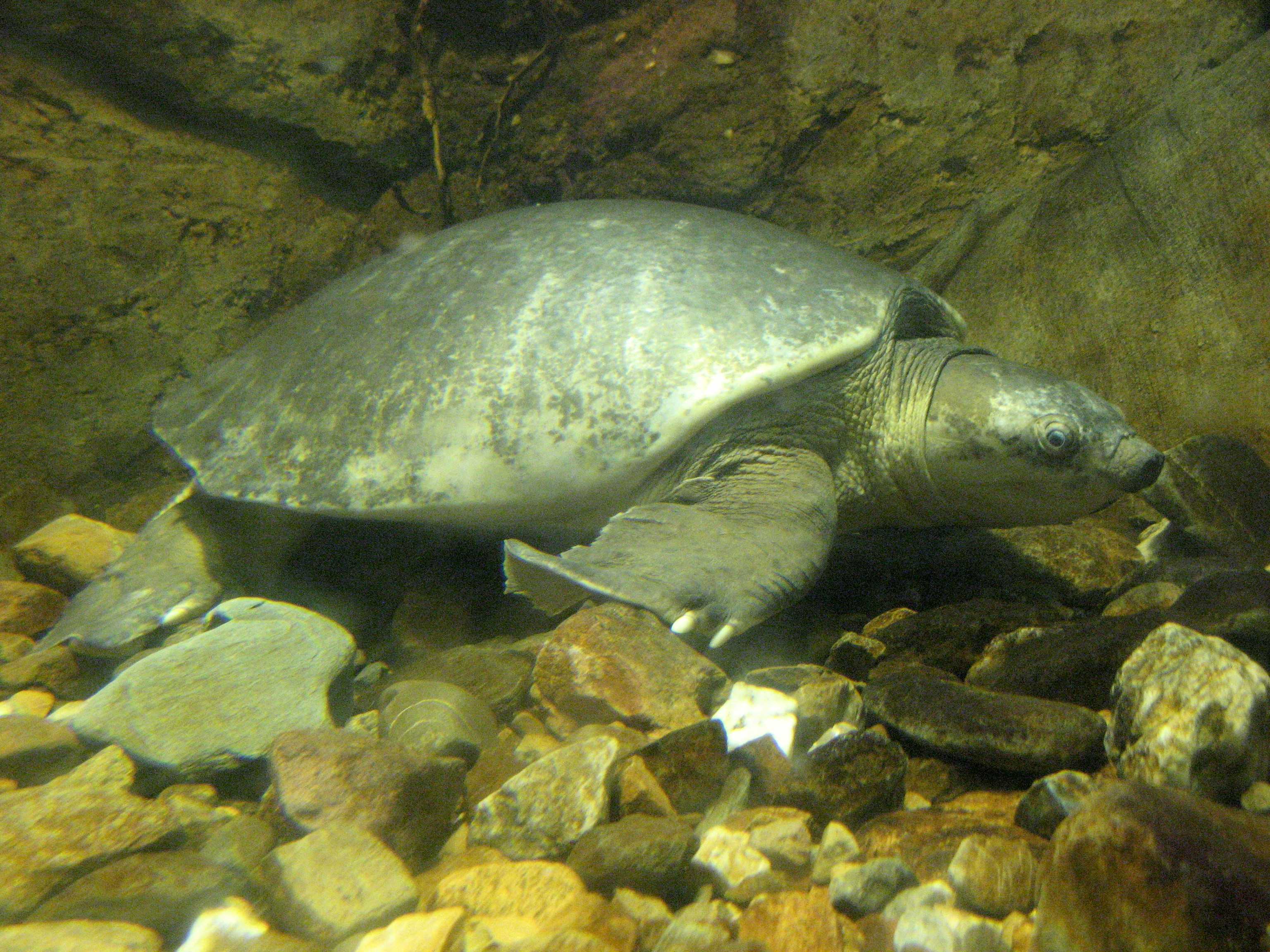 Carettochelys insculpta (pig-nose turtle) at the National Zoo & Aquarium in Canberra, Australia